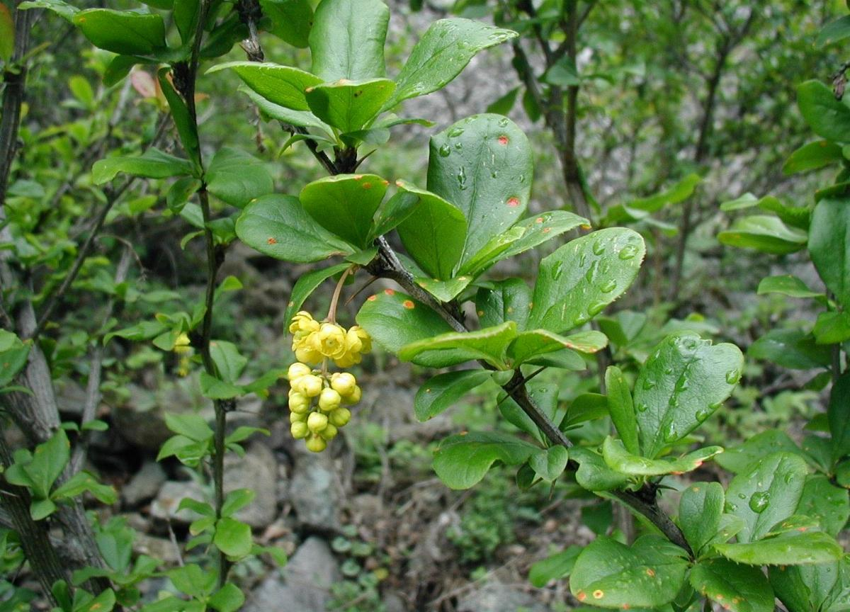 Berberis vulgaris: Flowers and foliage (with rust)